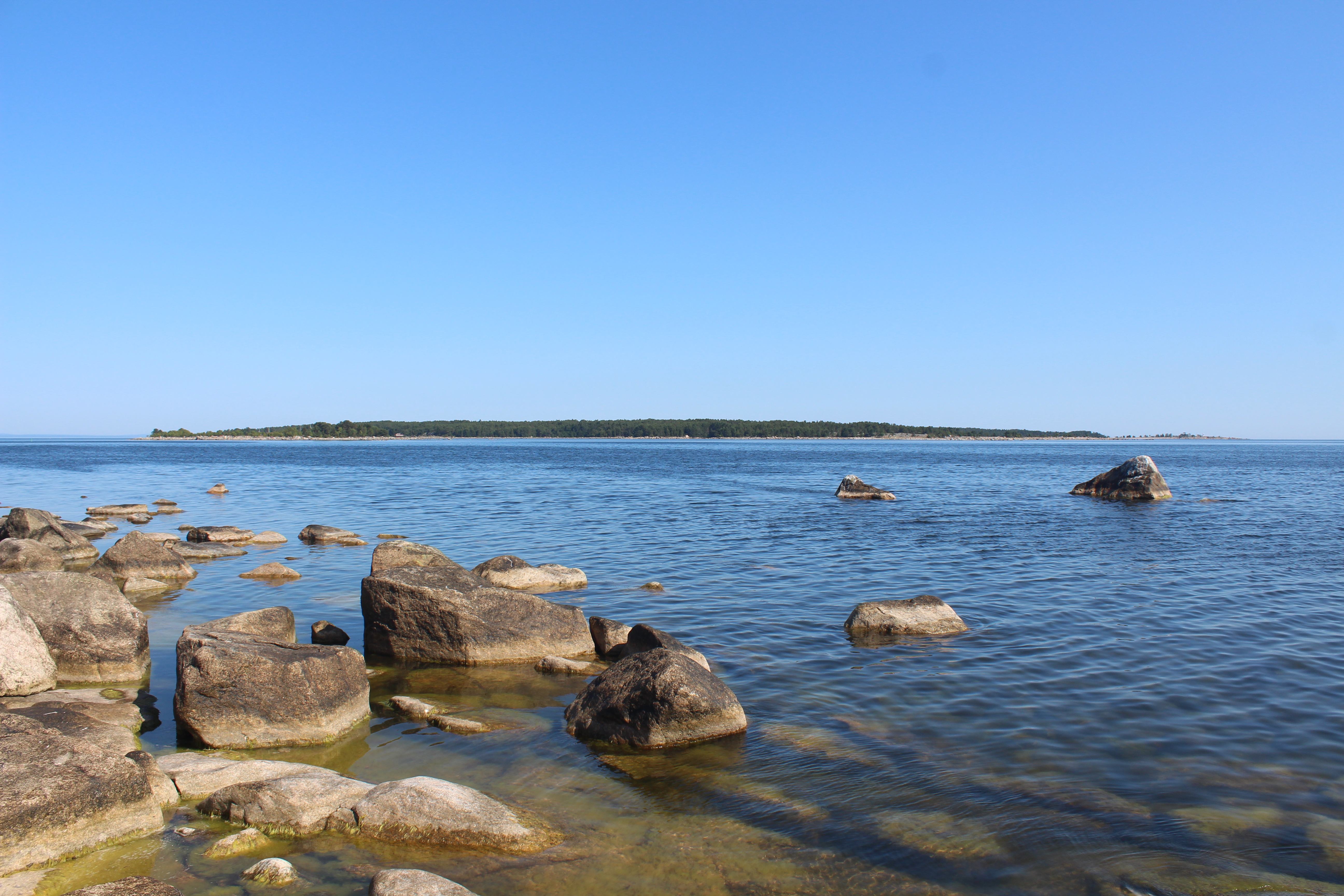 Island Bålsön. View from Kuggörarna